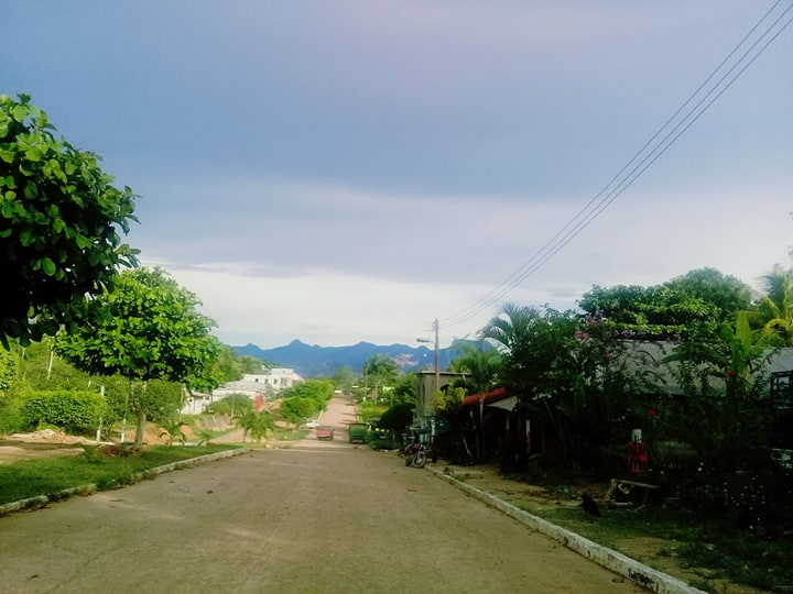 Plan de Arroyo Uxpanapa Veracruz Town